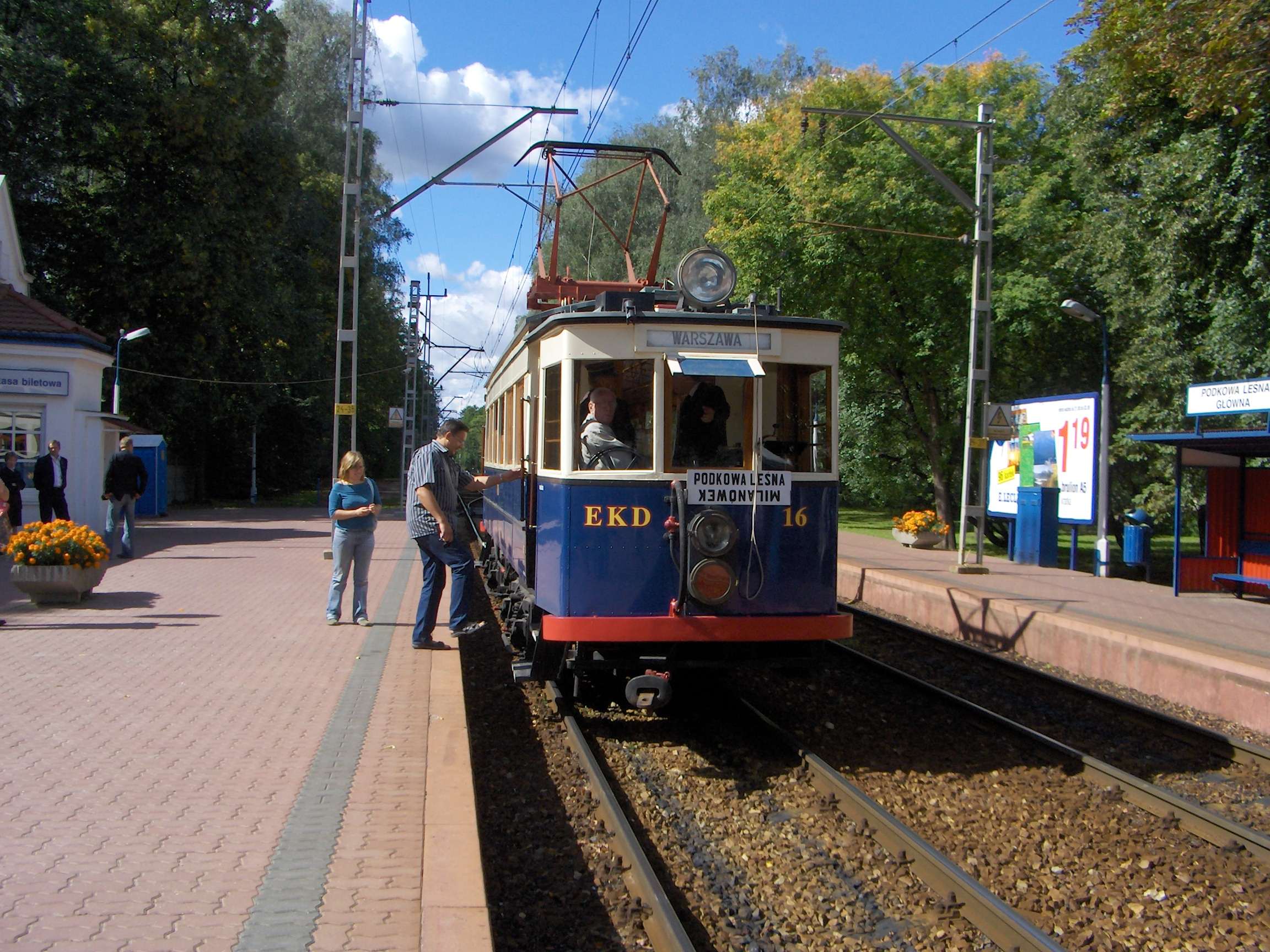 Polish electric multiple unit EN80 in colours of EKD (Electrical Suburb Railway; today WKD - Warsaw Suburb Railway) on Podkowa Leśna Główna station.